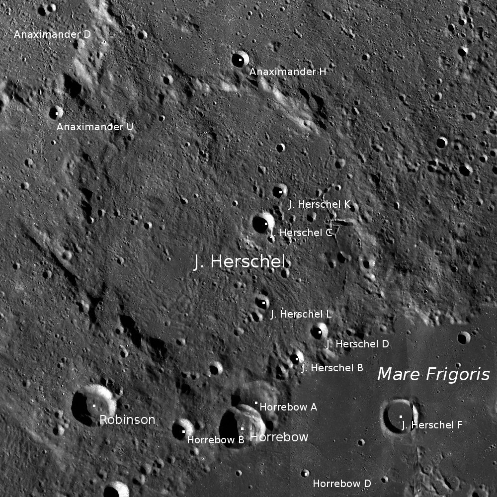 Moon crater J. Herschel with satellite features (north at top; detail of LRO - WAC north pole mosaic)